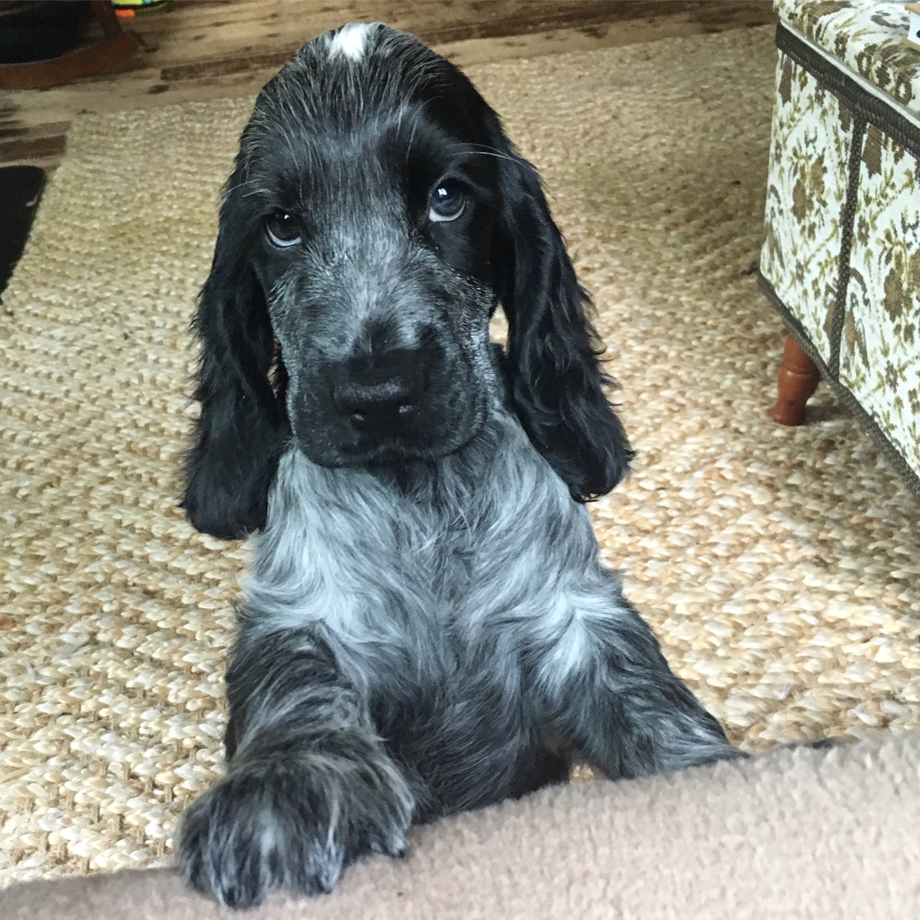 9 week old blue roan English Cocker Spaniel bitch